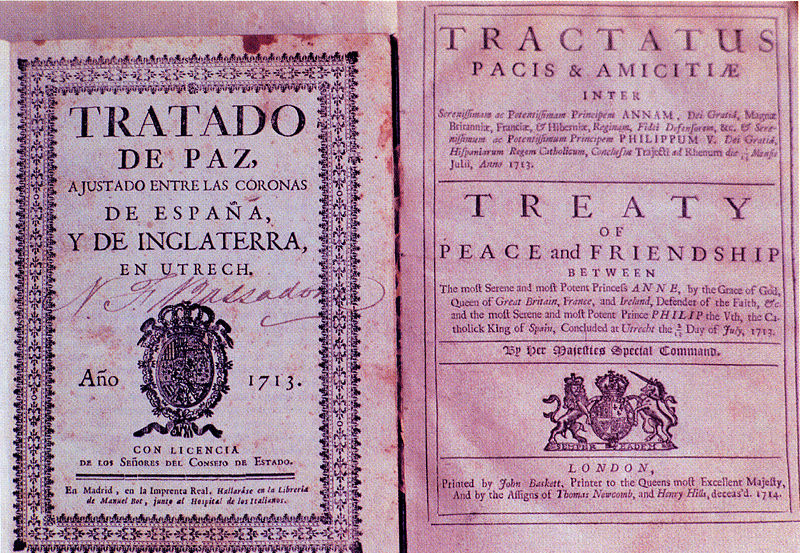 A first edition of the Treaty of Utrecht, 1713, in Spanish (left), and a copy printed in 1714 in Latin and English (right).